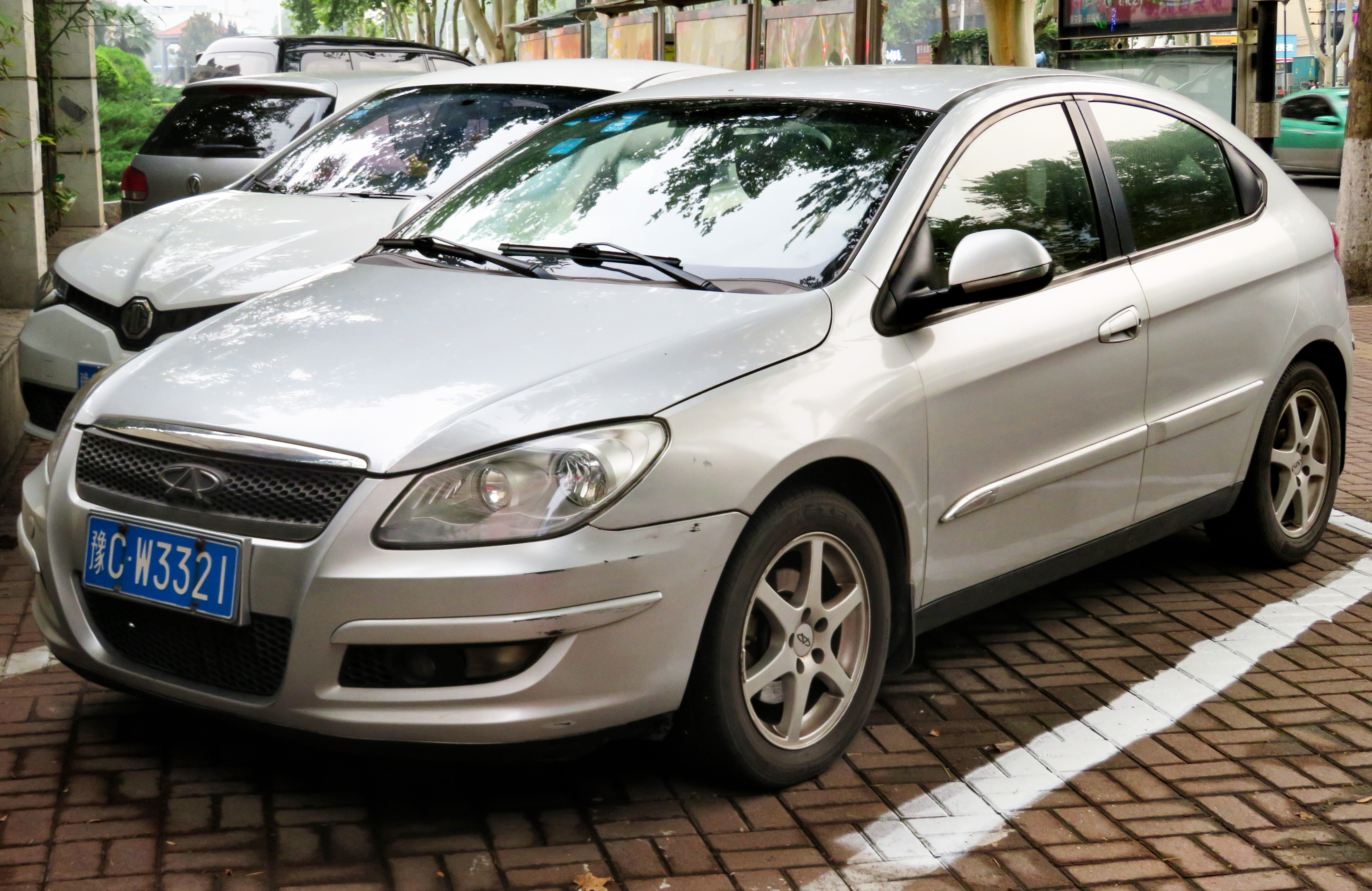 A 2014 Chery A3 hatchback photographed in Xigong District, Luoyang, Henan province, China